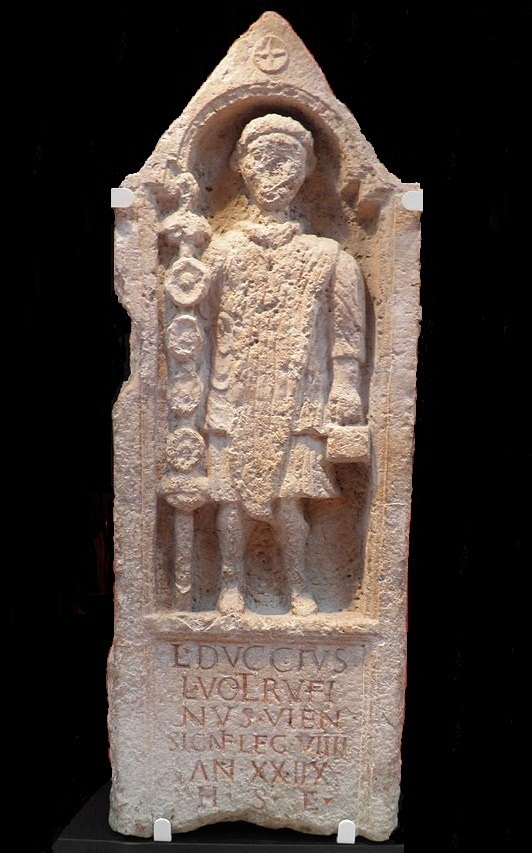 A Roman-era stone slab at the Yorkshire Museum, York, with an inscription below a carved figure of a signifer or standard bearer in the 9th Hispanic Legion.Yorkshire Museum, York (Eboracum)